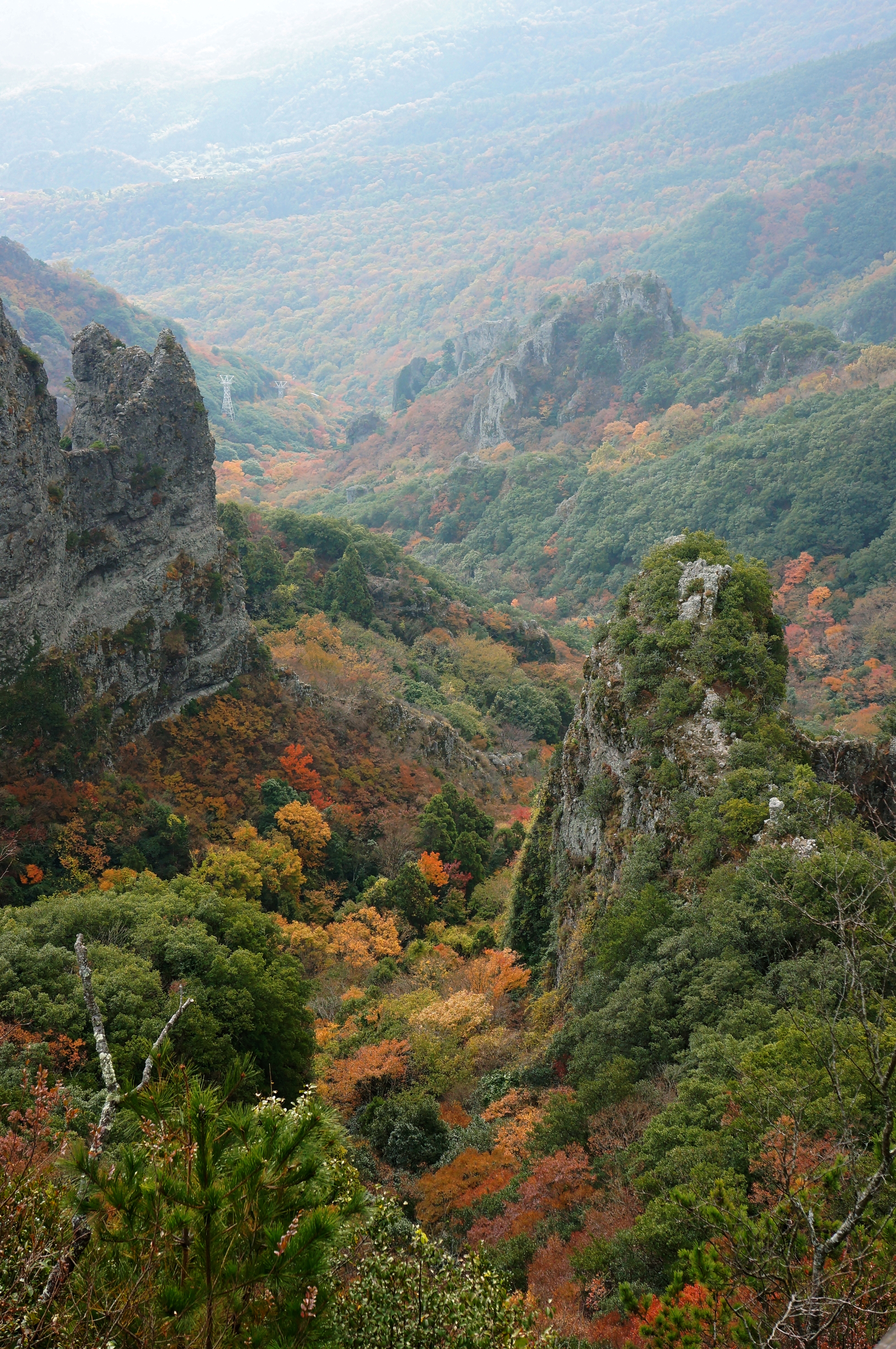 Kankakei in Shodoshima, Kagawa Prefecture, Japan